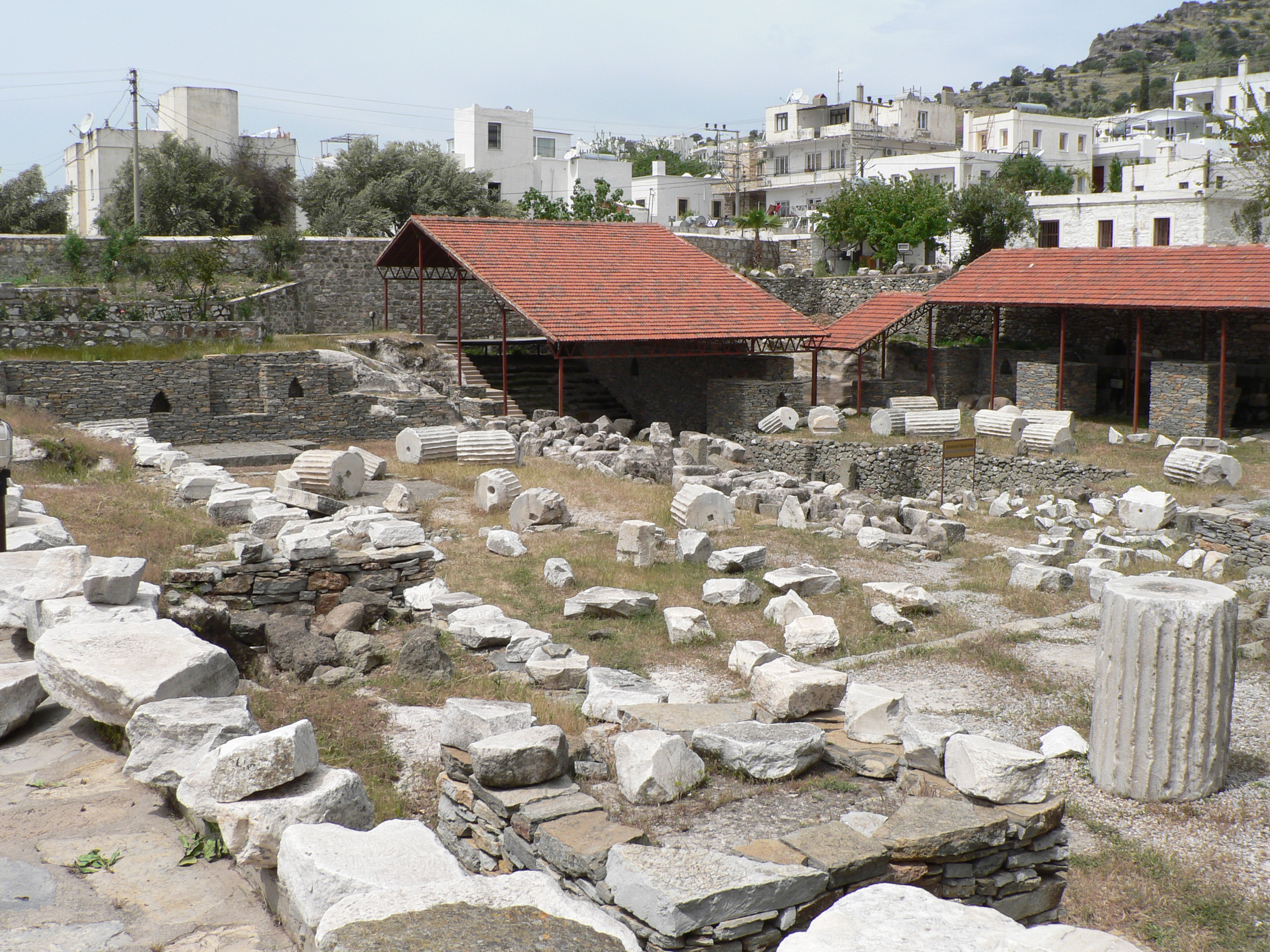 Mausoleum of Maussollos as it stands today in Bodrum, Turkey.